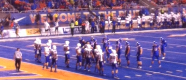 Boise State lining up to kick and extra point in the second half of their game against the United State Air Force Academy at Bronco Stadium in Boise, Idaho on September 13, 2013. Boise State lining up to kick and extra point in the second half of their game against the United State Air Force Academy at Bronco Stadium in Boise, Idaho on September 13, 2013.